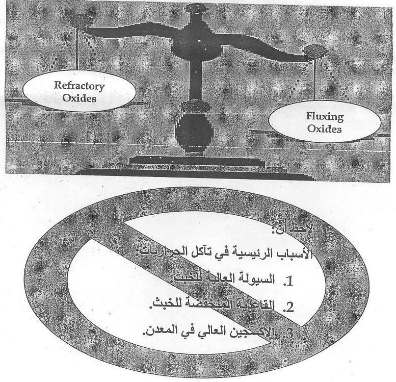 تكون نسبة الـ Fluxing Oxides عالية (أكبر من نصف نسبة الـ Refractory Oxides)